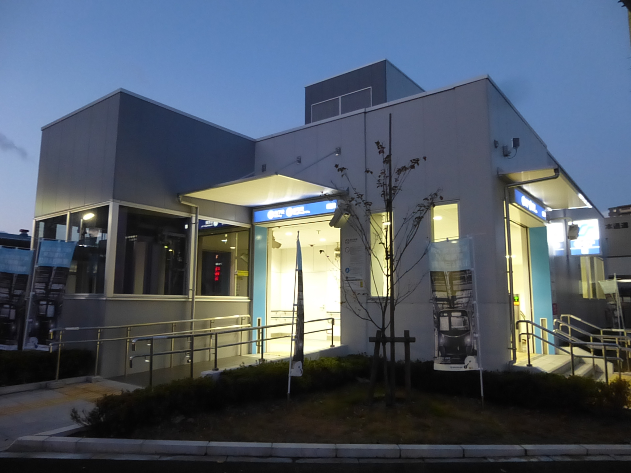 The "South 1" entrance to Oroshimachi Station on the Sendai Subway Tozai Line in Sendai, Japan